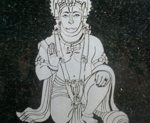 Hanuman image on stone slab.